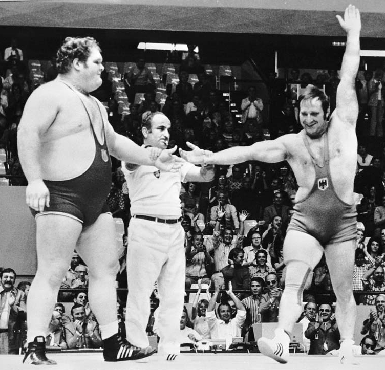 Wrestling at the 1972 Summer Olympics – Men's Greco-Roman +100 kg, Chris Taylor vs. Wilfried Dietrich